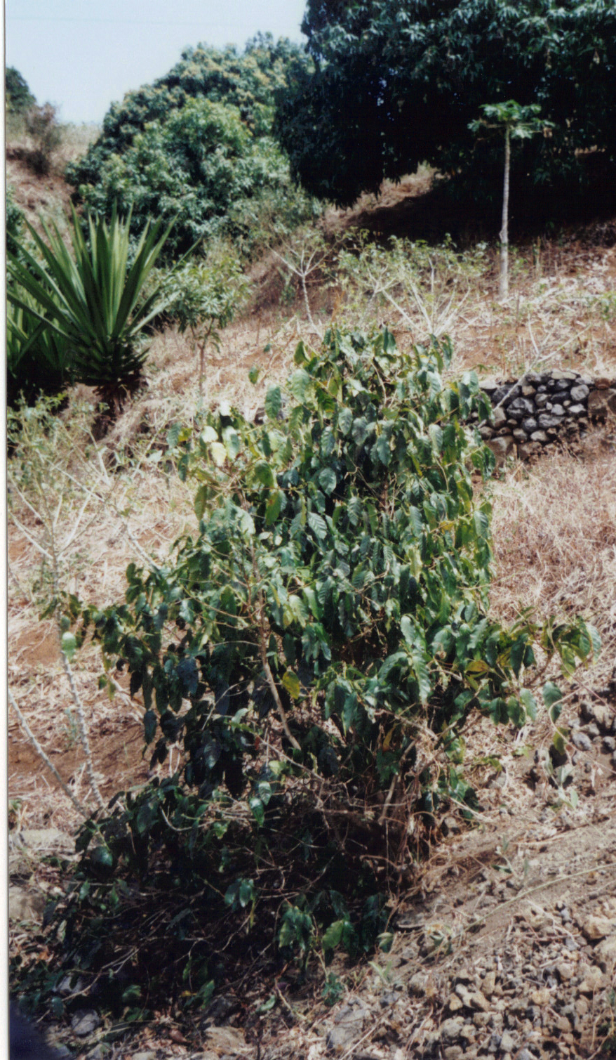 Coffee plant near Mosteiros, island of Fogo, Cape Verde